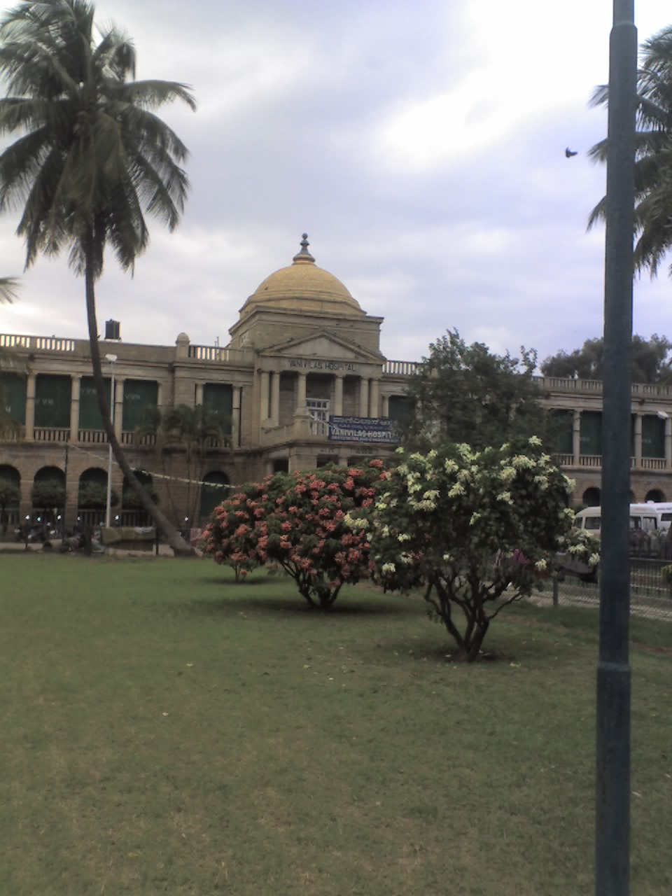 The main building of Vanivilas Women and Children Hospital affiliated to Bangalore Medical College